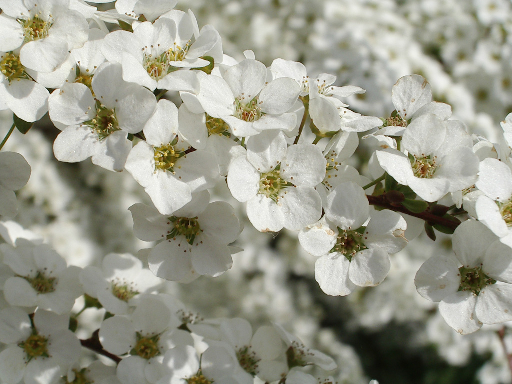 Spiraea thunbergii. Photo taken at the bank of Kamo river, Kyoto, Japan. ユキヤナギの花。京都市の鴨川の川岸で撮影。